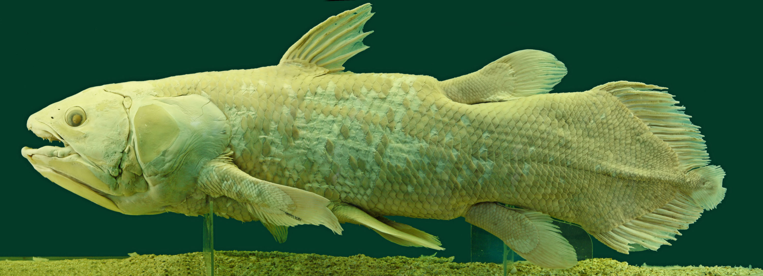 Preserved specimen of chalumnae (Also known as Coelacanth [1]) in the Natural History Museum, Vienna, Austria. Believed to have been extinct for 70 million years, this specimen was caught the 18 October of 1974, next to Salimani/Selimani (Grande Comore, Comoros Islands) 11°48′40.7″S 43°16′3.3″E / 11.811306°S 43.267583°E Length: 170 cm - Weight: 60 kg Obtained by stiching 3 HiRes images and removing the background with image post-processing.